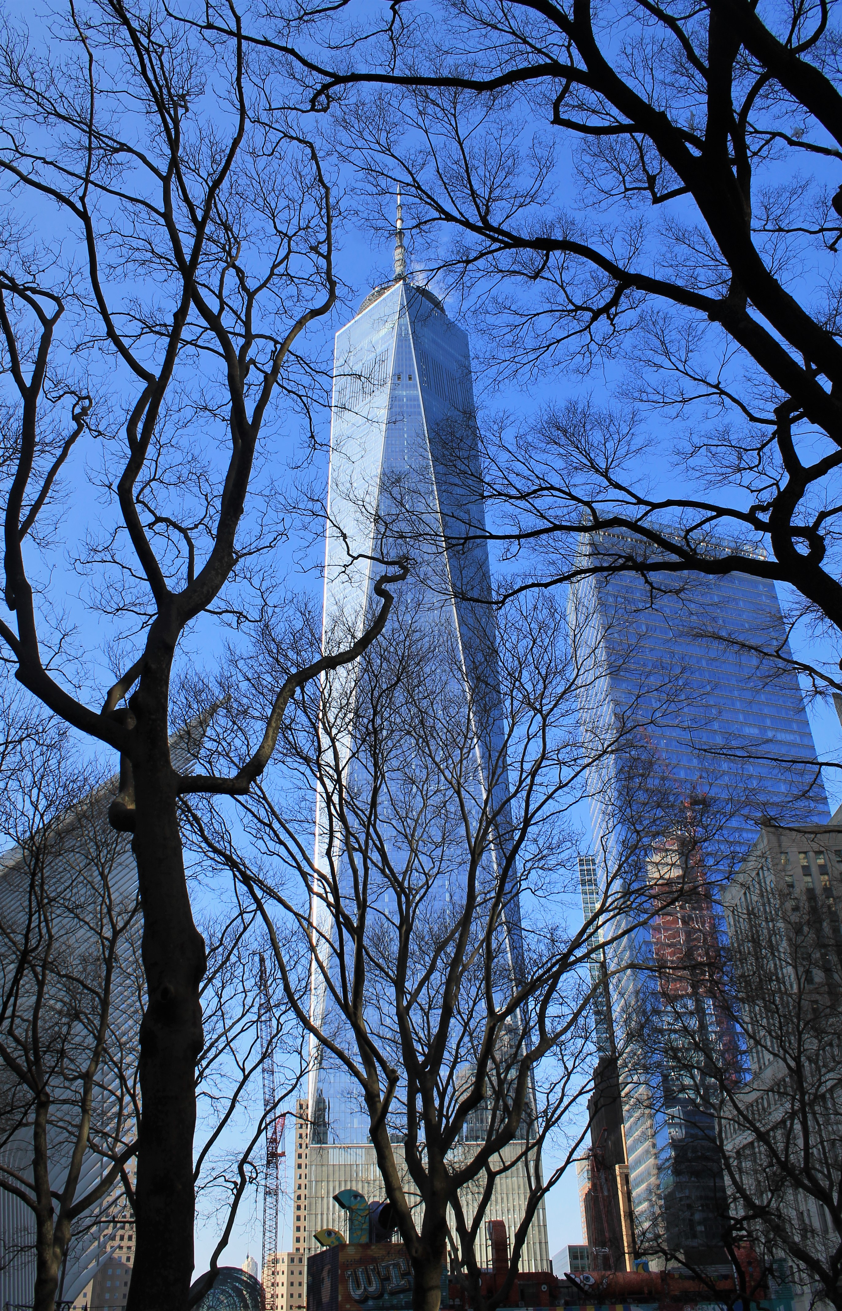 This is a photo of the One World Trade Center seen from the grounds of St. Paul's Chapel, a historical building constructed in 1764.